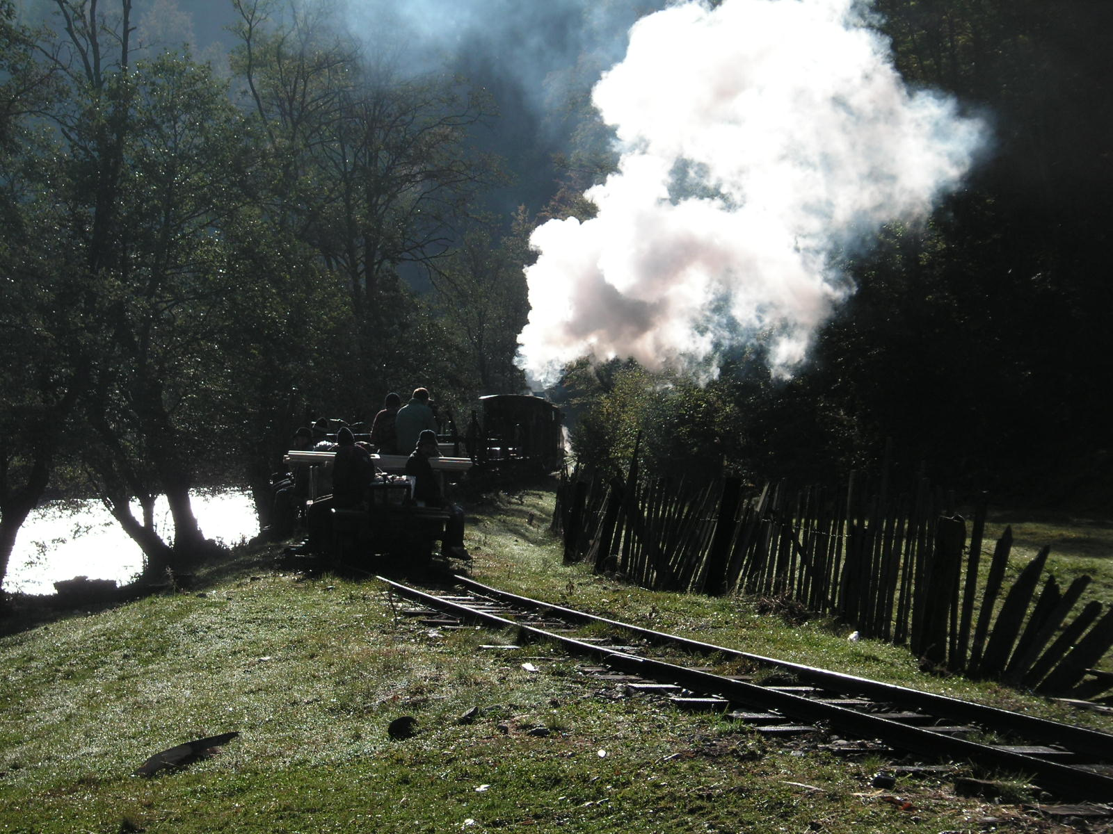 Vaser Valley railway production train